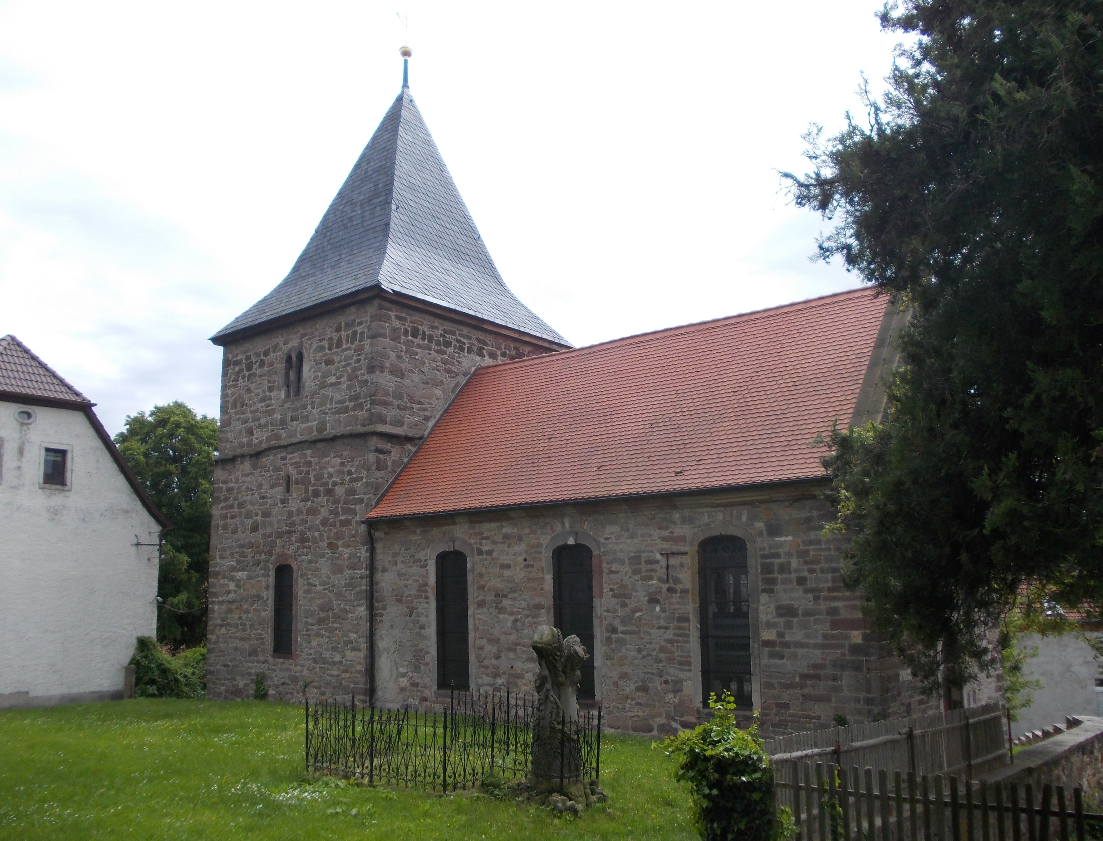 Leimbach church (Querfurt, district: Saalekreis, Saxony-Anhalt)